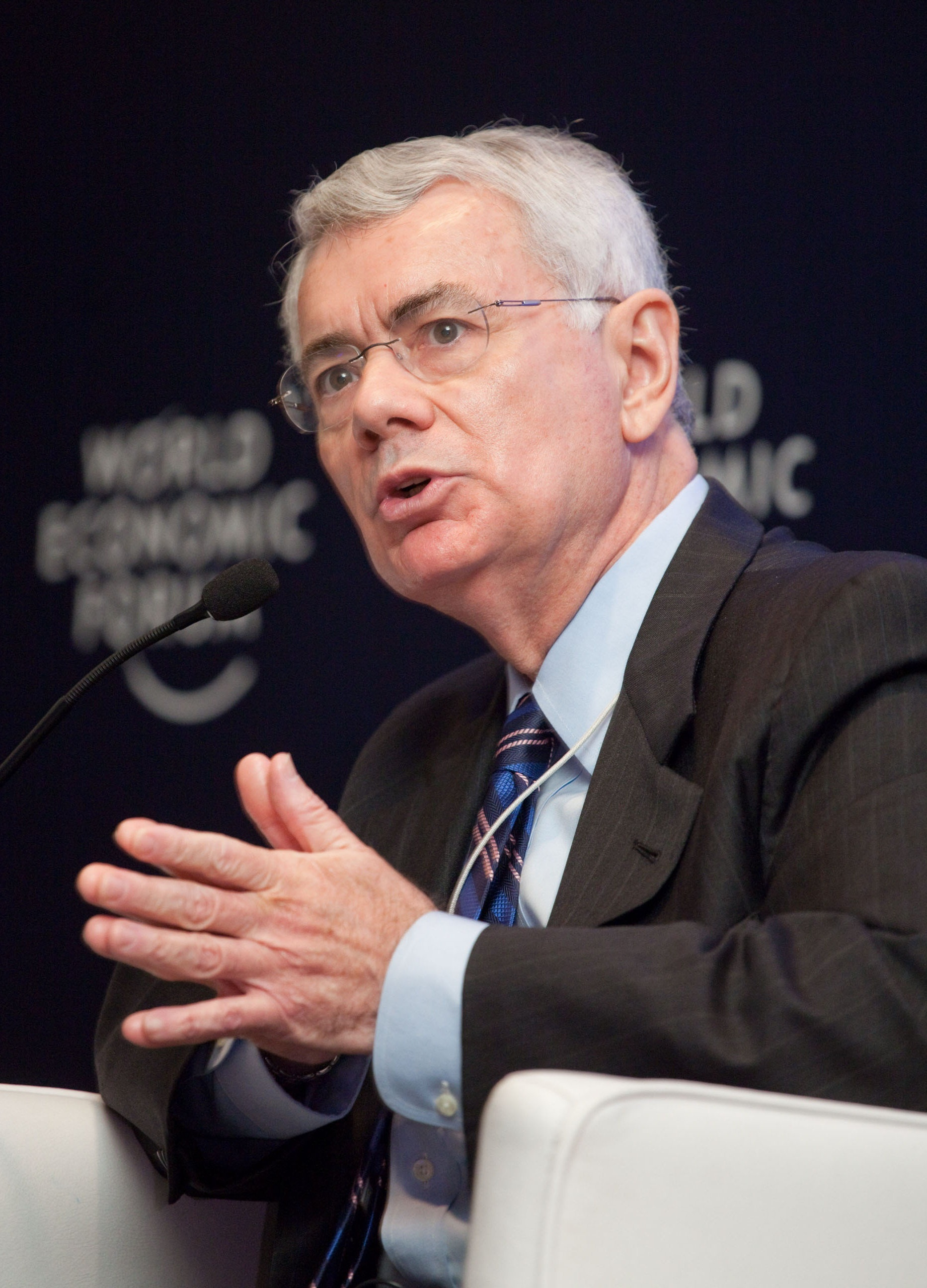 RIO DE JANEIRO/BRAZIL, 28 APRIL 2011 - James Bacchus, Chair, Global Trade and Investment Practice, Greenberg Traurig, USA; Global Agenda Council on Trade, captured during the World Economic Forum on Latin America in Rio de Janeiro, Brazil, April 28, 2011. Copyright World Economic Forum ( by Bel Pedrosa